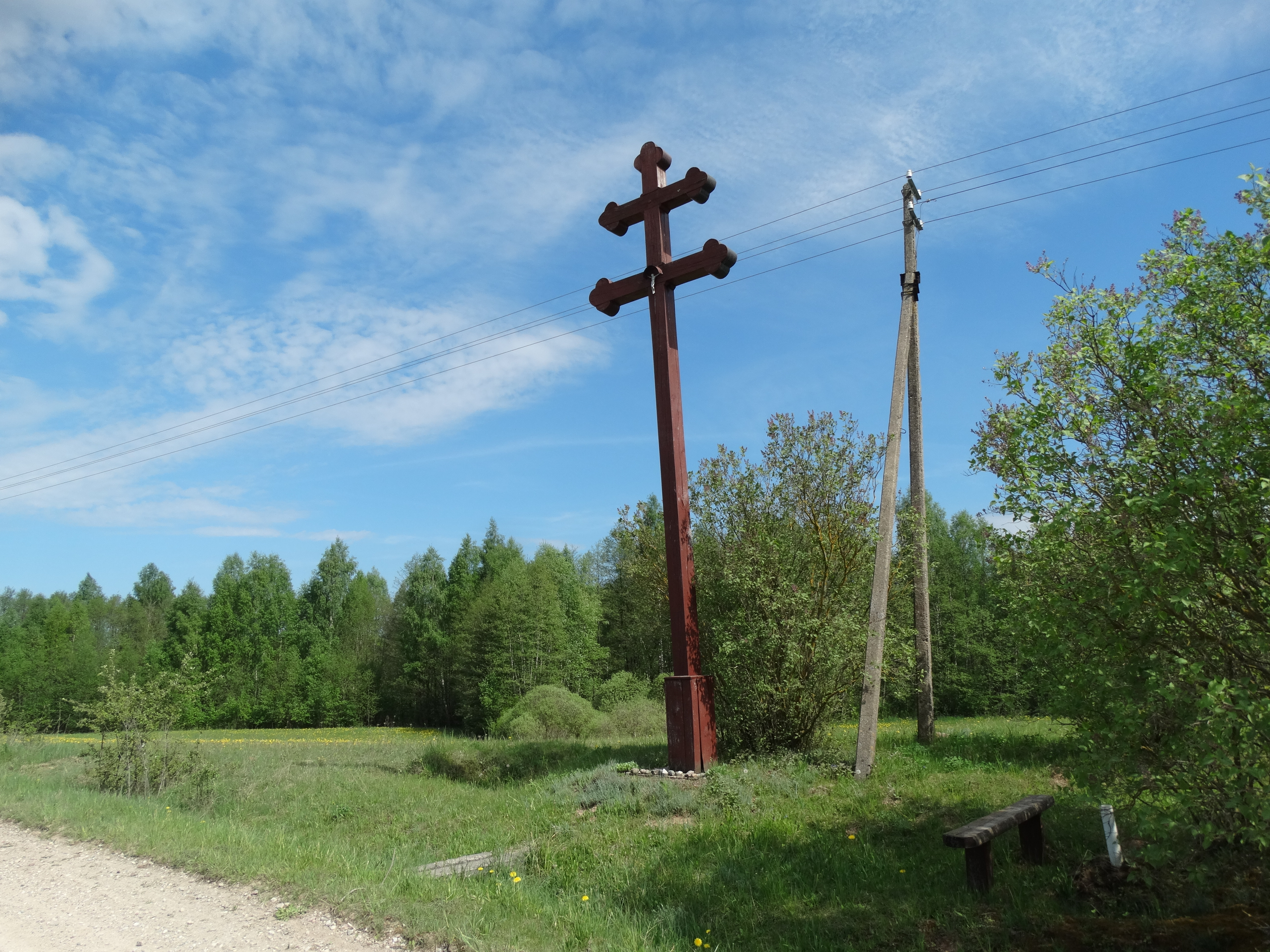 Voversys, Anykščiai District, Lithuania